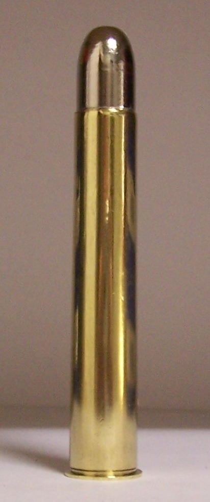 A .500 Nitro Express Cartridge